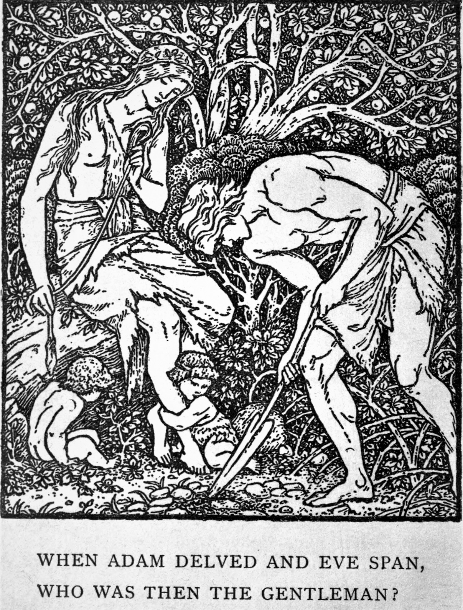 Artwork by E. Burne-Jones, April 1888, for the first book edition of William Morris' A Dream of John Ball. Illustrates the couplet "When Adam delved and Eve span / Who was then the gentleman?" which had international popularity in several Germanic languages as an equalitarian slogan during the medieval period.